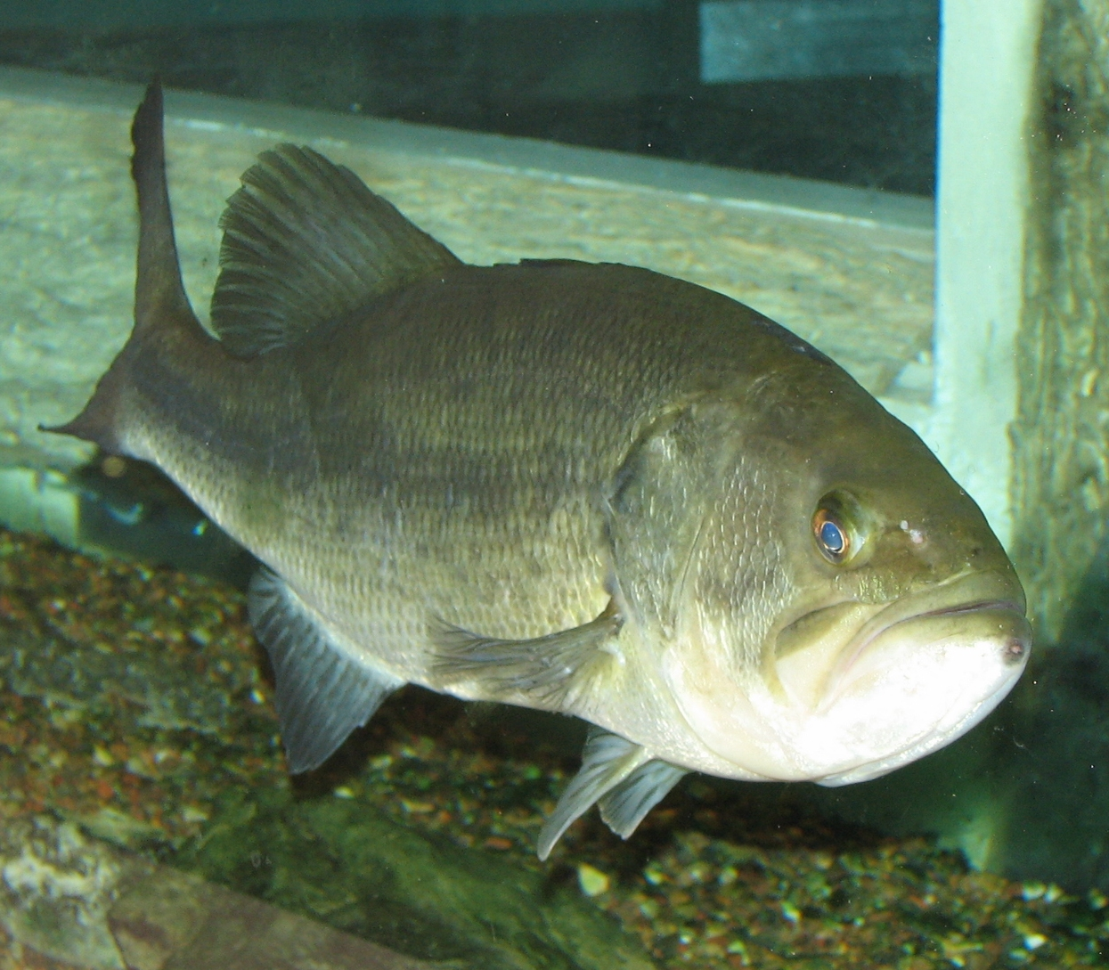 Largemouth Bass - Micropterus salmoides